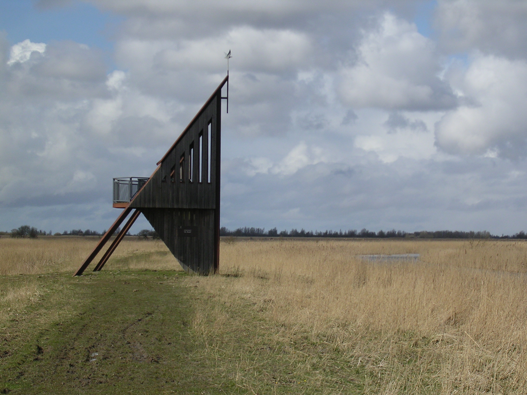 Viewpoint De Baak in de Kollumerwaard near the Lauwersmeer